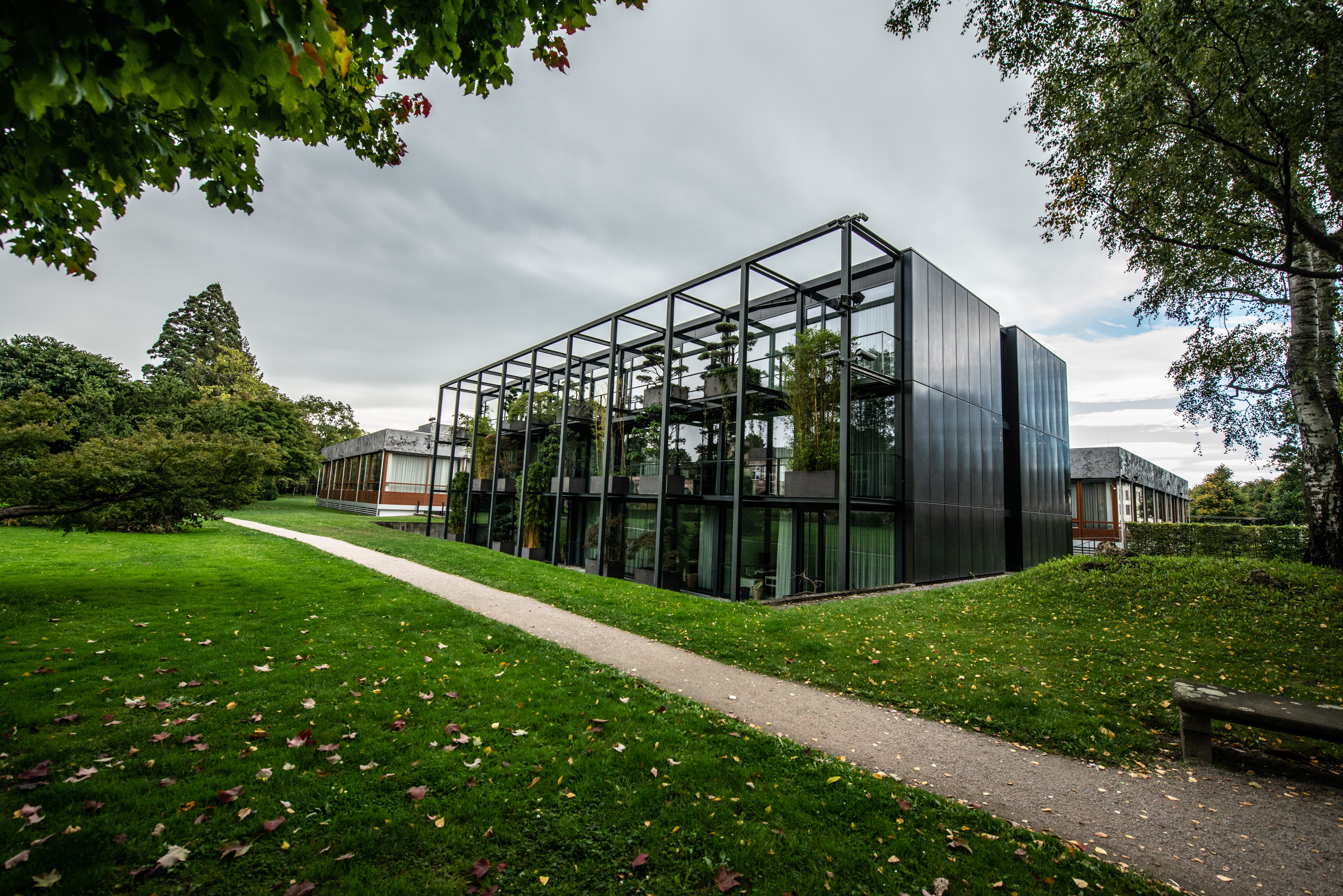 Karlsruhe, Bundesverfassungsgericht, Dienstsitz Schlossbezirk. Wikidata has entry Q58454259 with data related to this item.